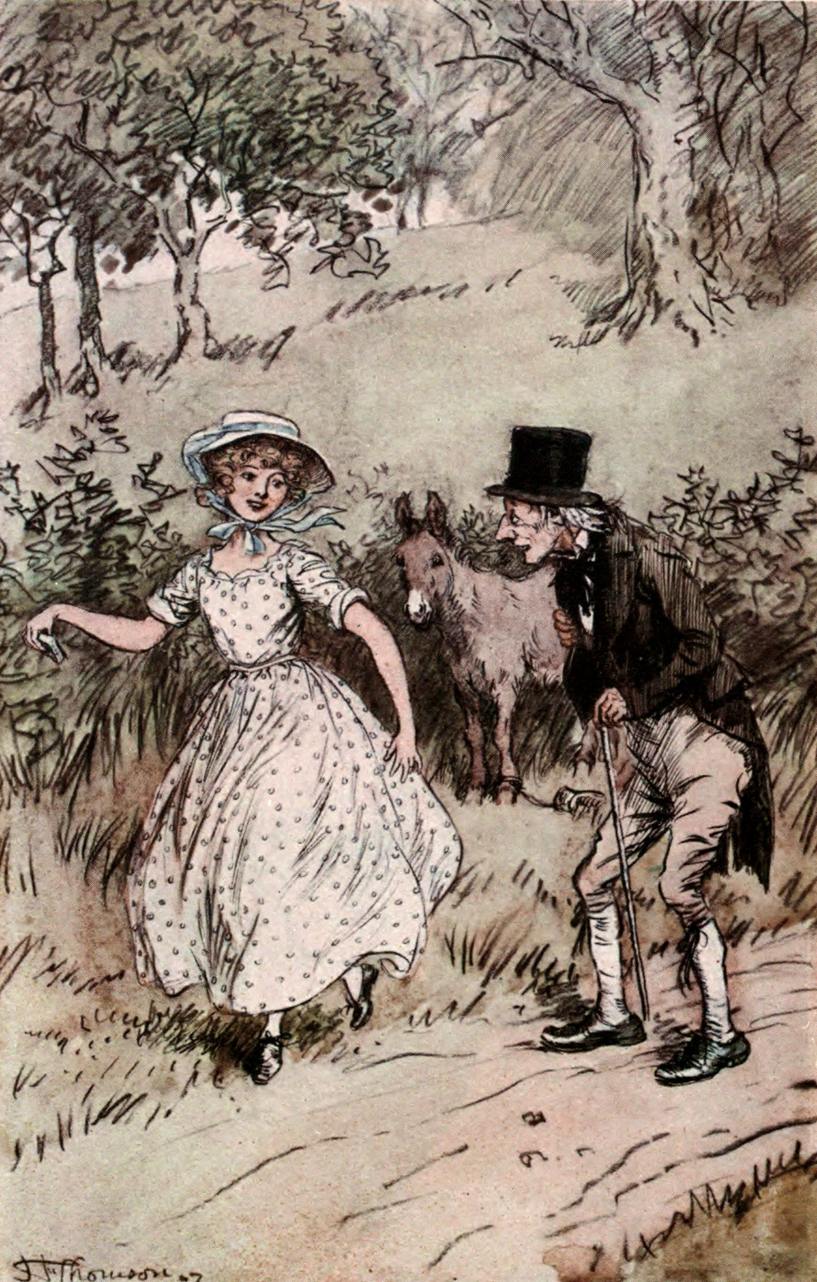 Illustration from the book Silas Marner, written by George Eliot, illustrated by Hugh Thomson